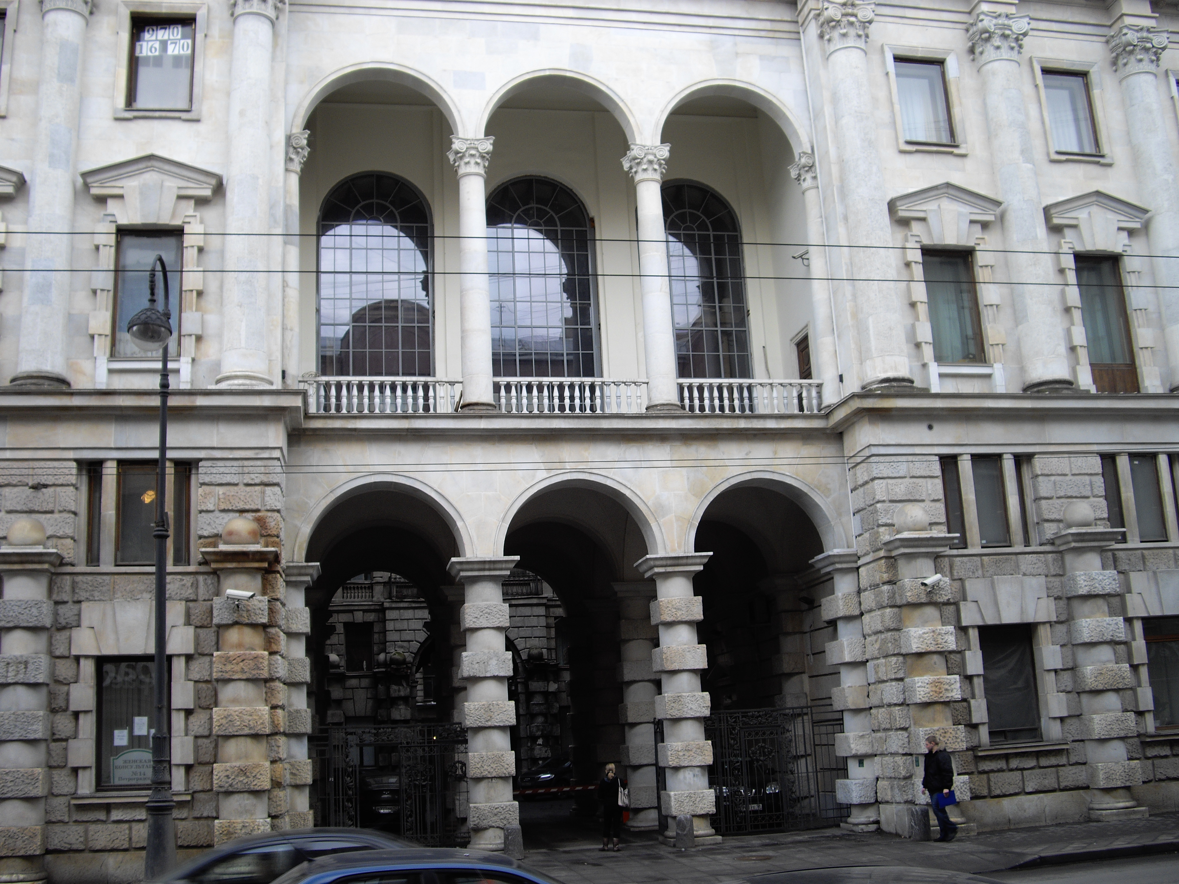 House of Emir of Bukhara (44b, Kamennoostrovsky avenue, St.Petersburg, Russia). Architect Stepan Krichinskiy, 1913.